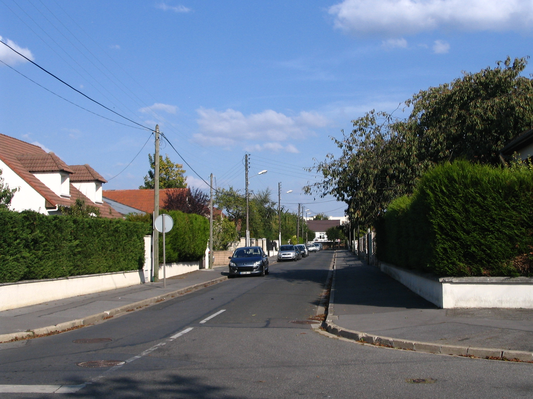 A street in Torcy, Seine-et-Marne, France.